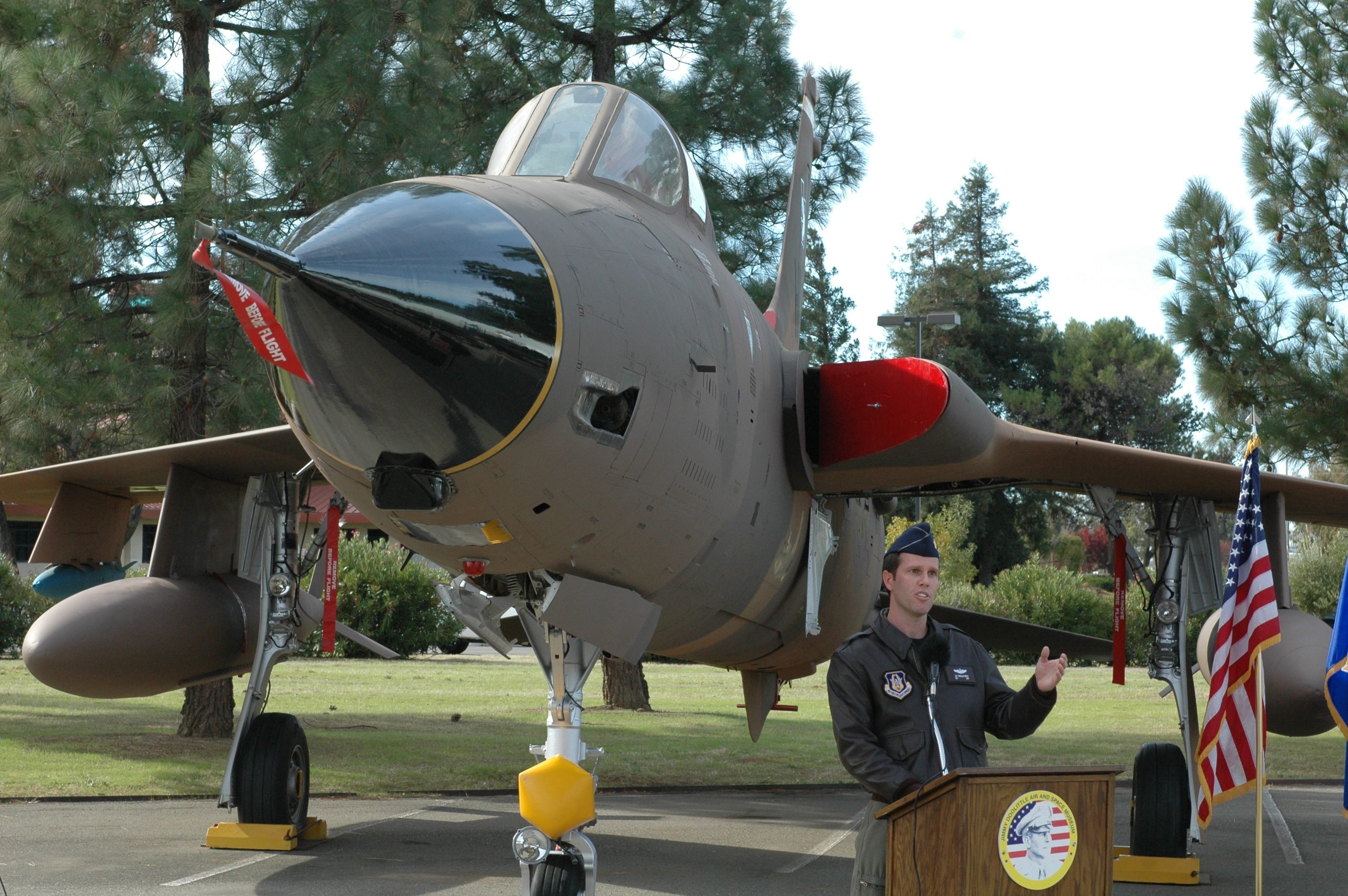 Maj. Jay Wahleithner speaks at the opening day ceremony for the F-105 Thunderchief at the Jimmy Doolittle Air & Space Museum